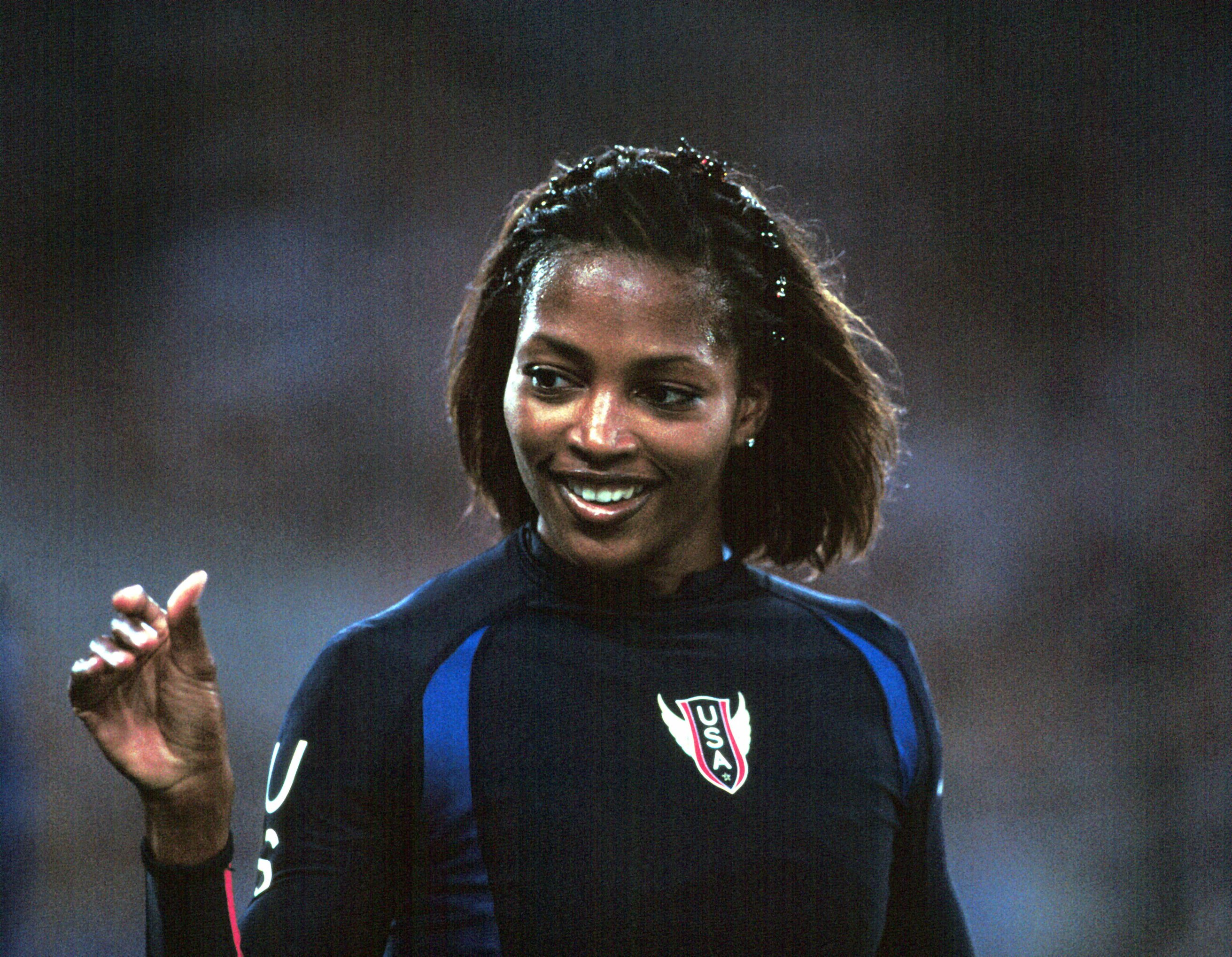 Dawn Burrell smiles before the women's long jump competition during the 2000 Olympic games in Sydney, Australia.